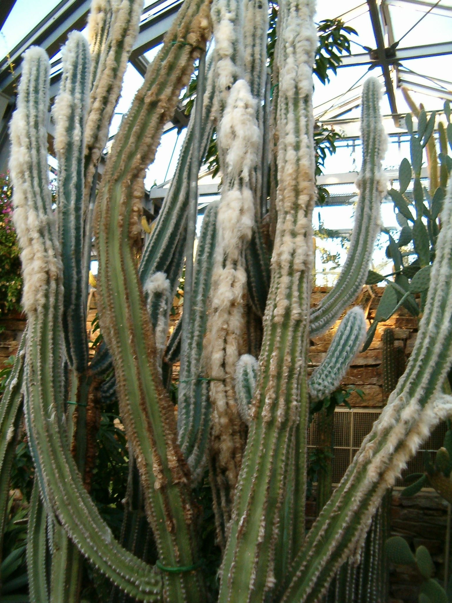 Location: Botanical Gardens Berlin